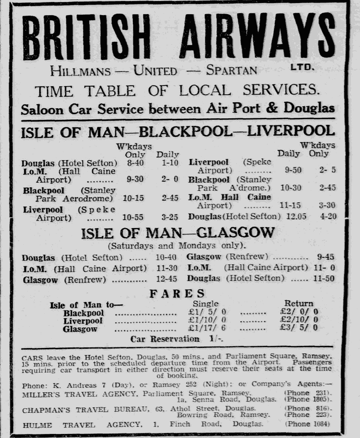 An advert describing the schedule services operated from Hall Caine Airport, Isle of Man, by British Airways Ltd. Summer 1936.